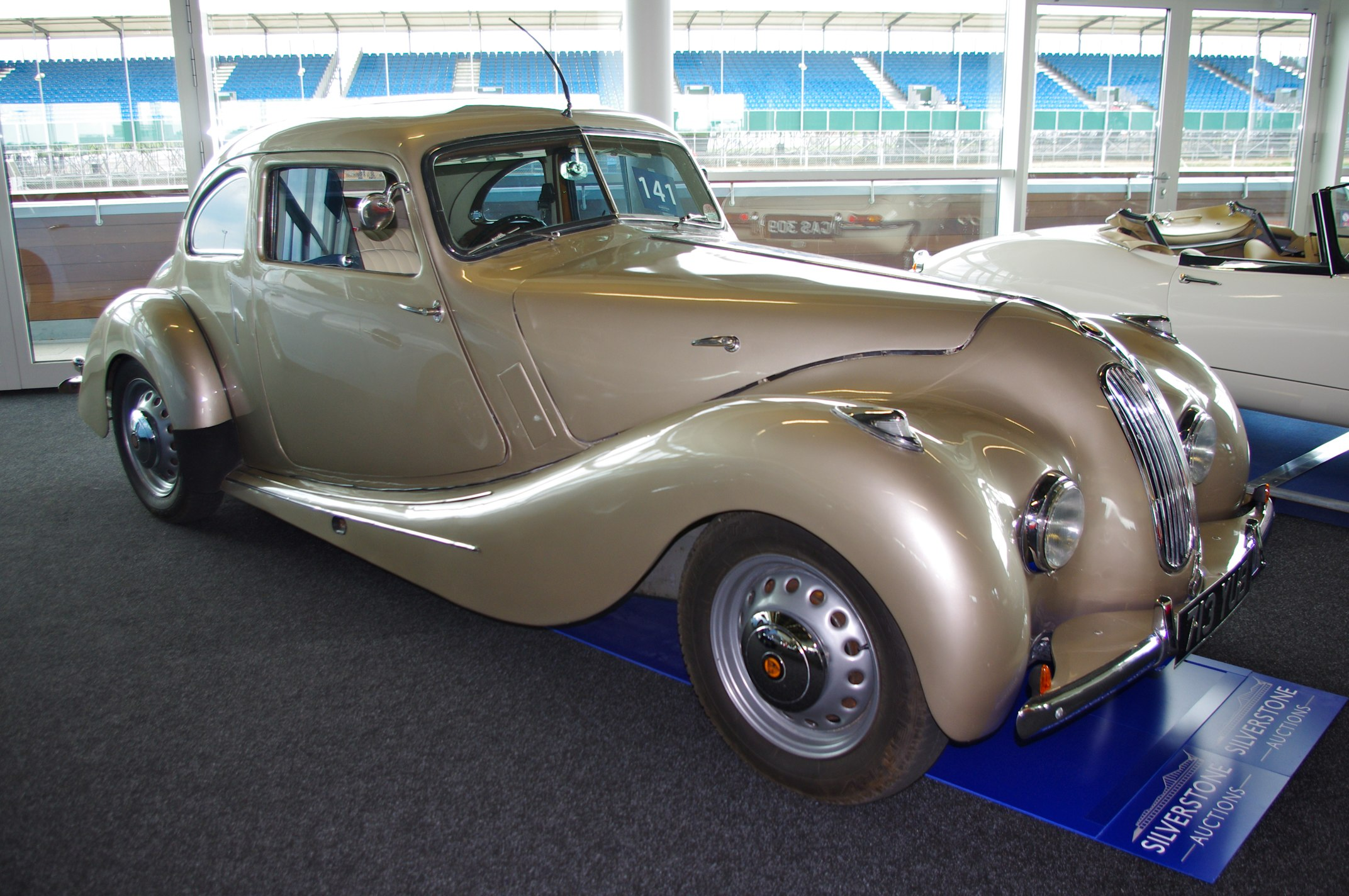 Silverstone Classic 2011